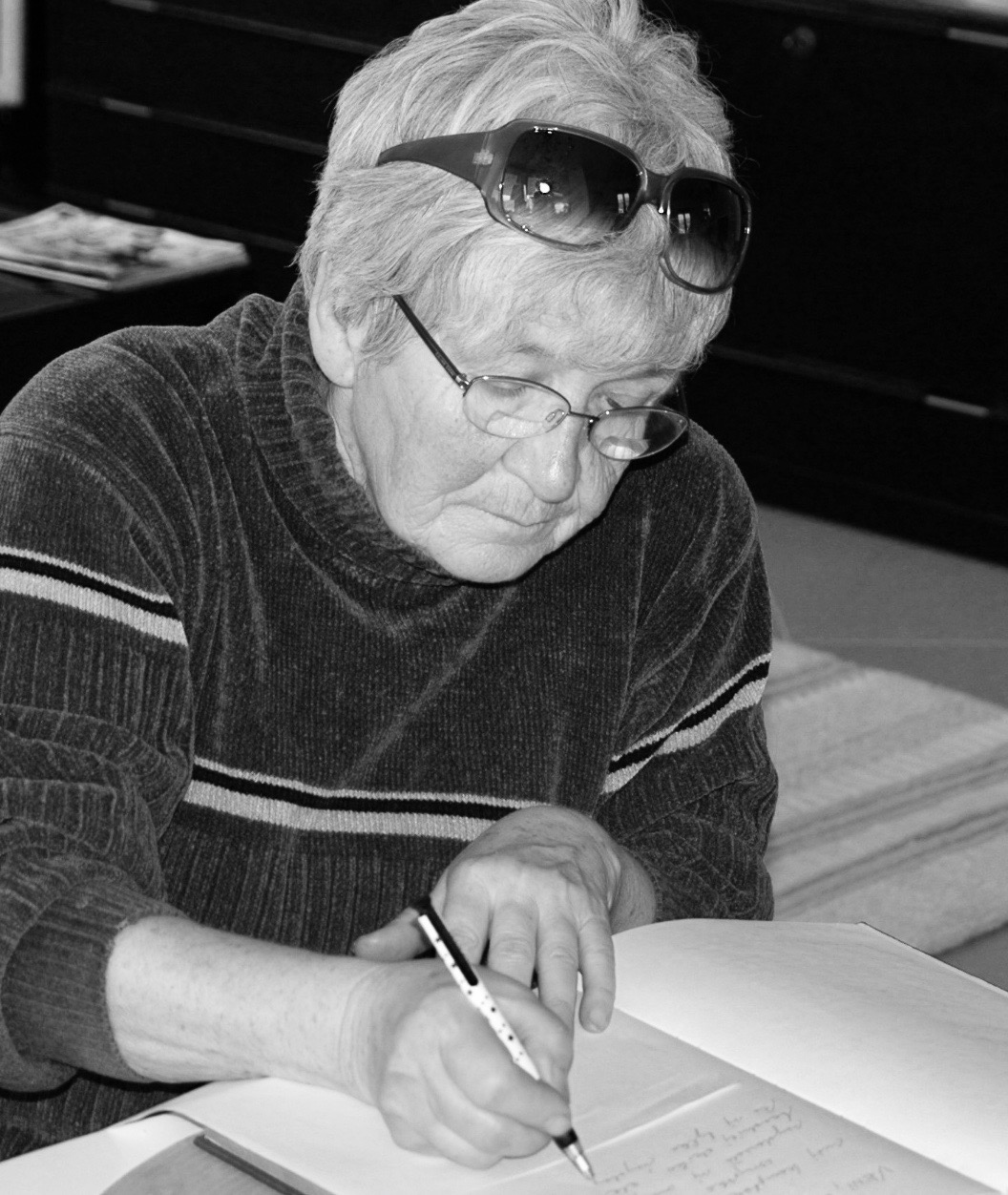 Alicja Stoksik 25 March 2010